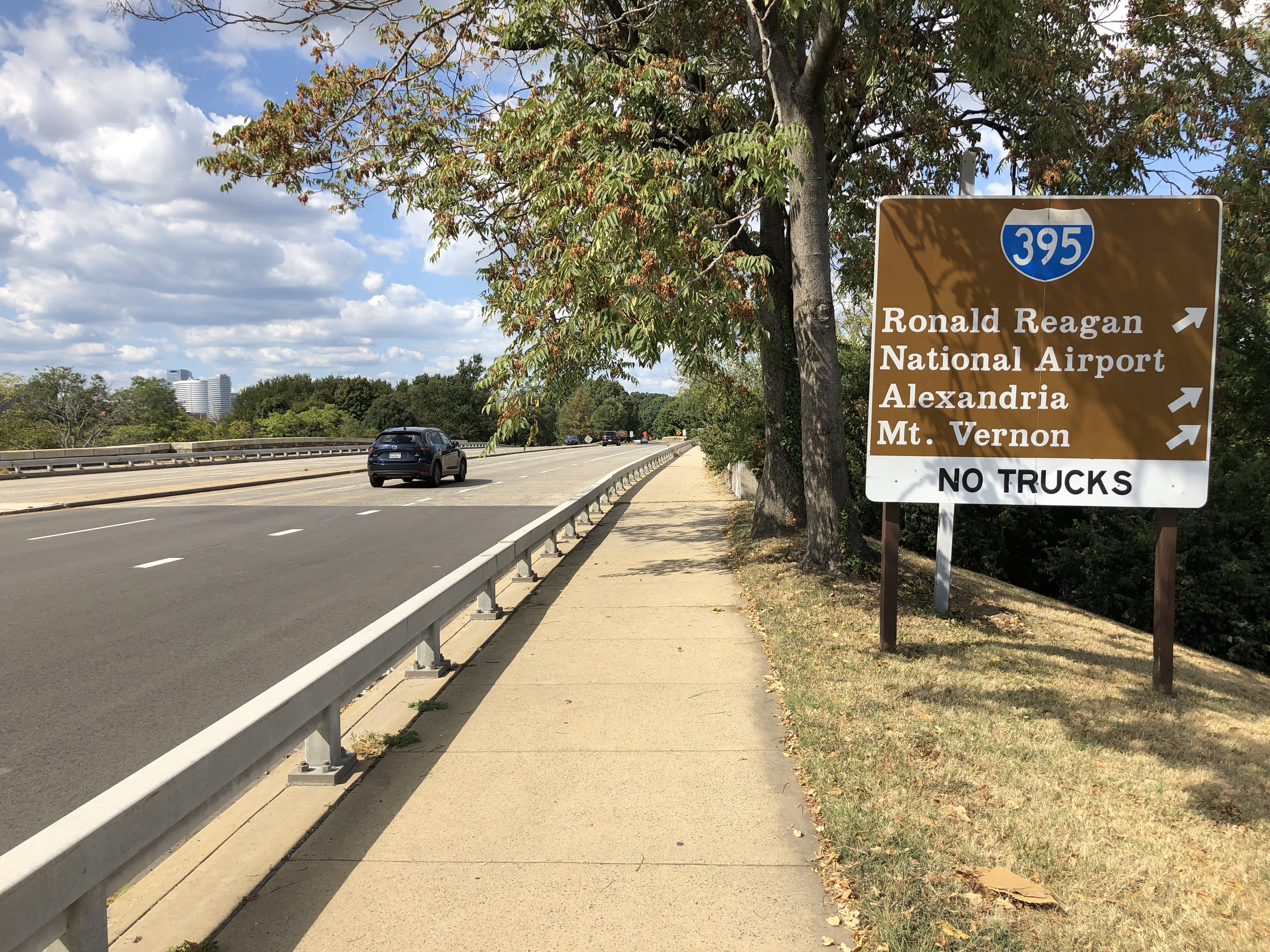 View east along Virginia State Route 27 (Washington Boulevard) just west of the exit for the George Washington Memorial Parkway (Interstate 395, Ronald Reagan National Airport, Alexandria, Mount Vernon) in Arlington County, Virginia